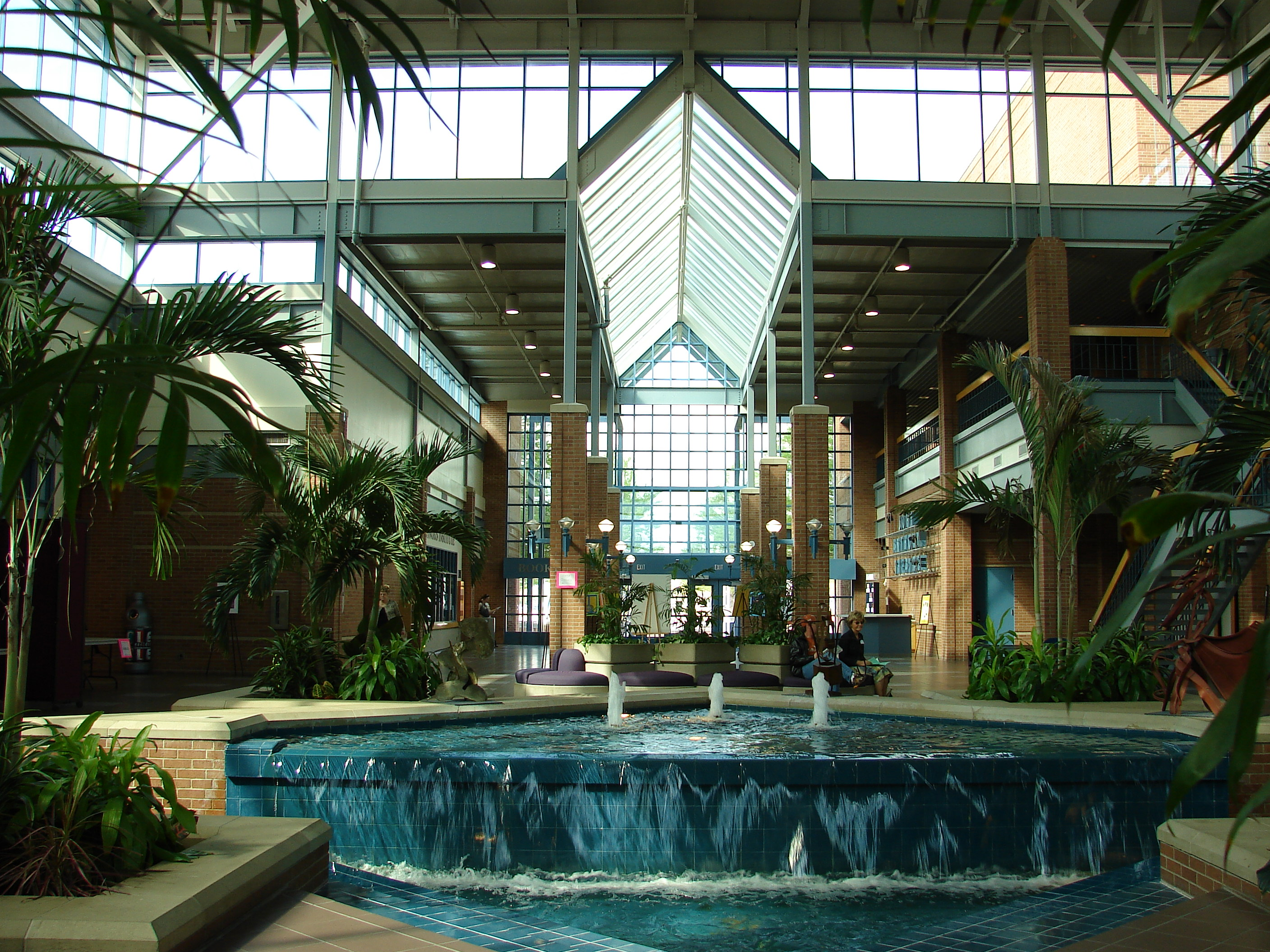 Collin County Community College (CCCC) Spring Creek campus in Plano, Texas.